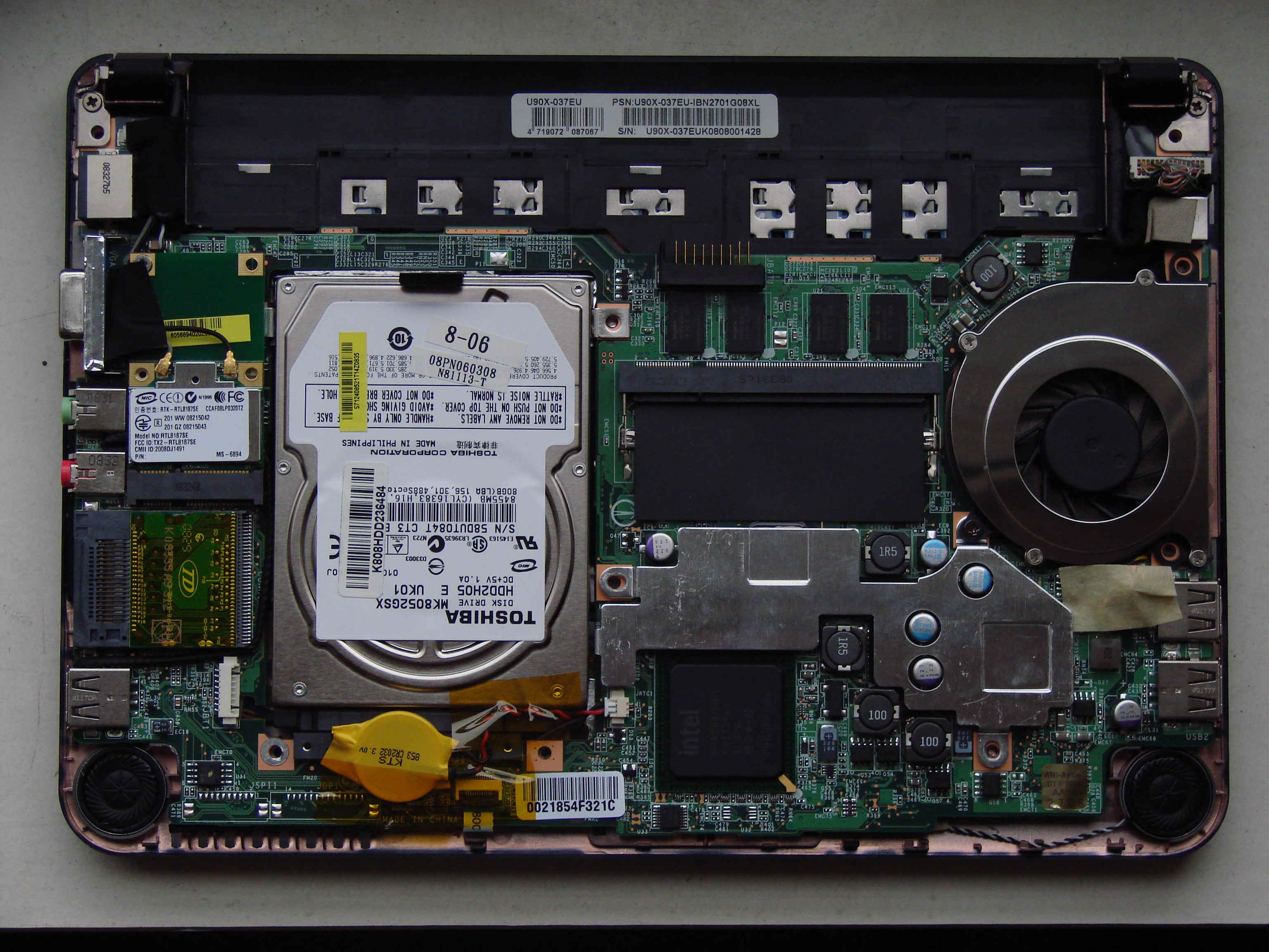 The inside of an MSI Wind Netbook U90x.